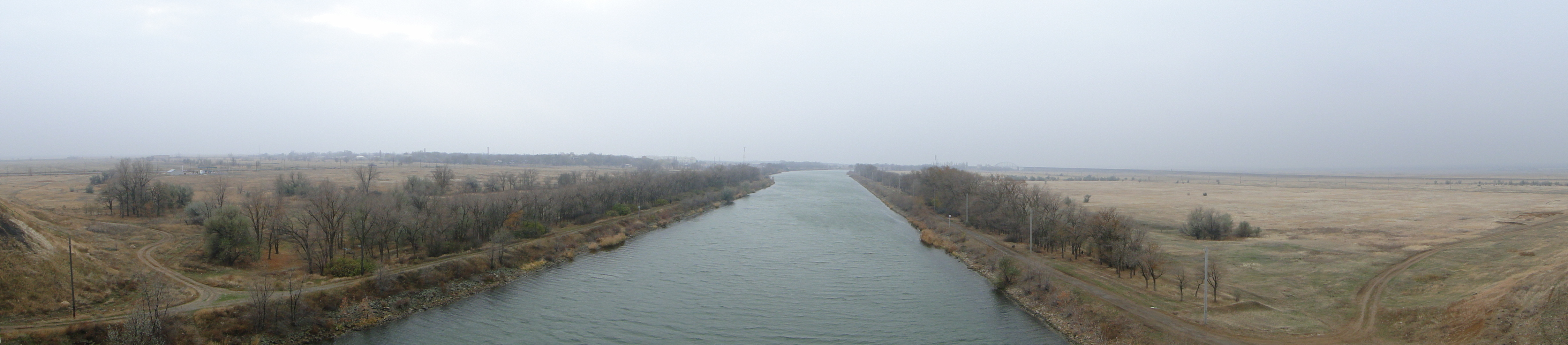 panorama of Volga–Don Canal